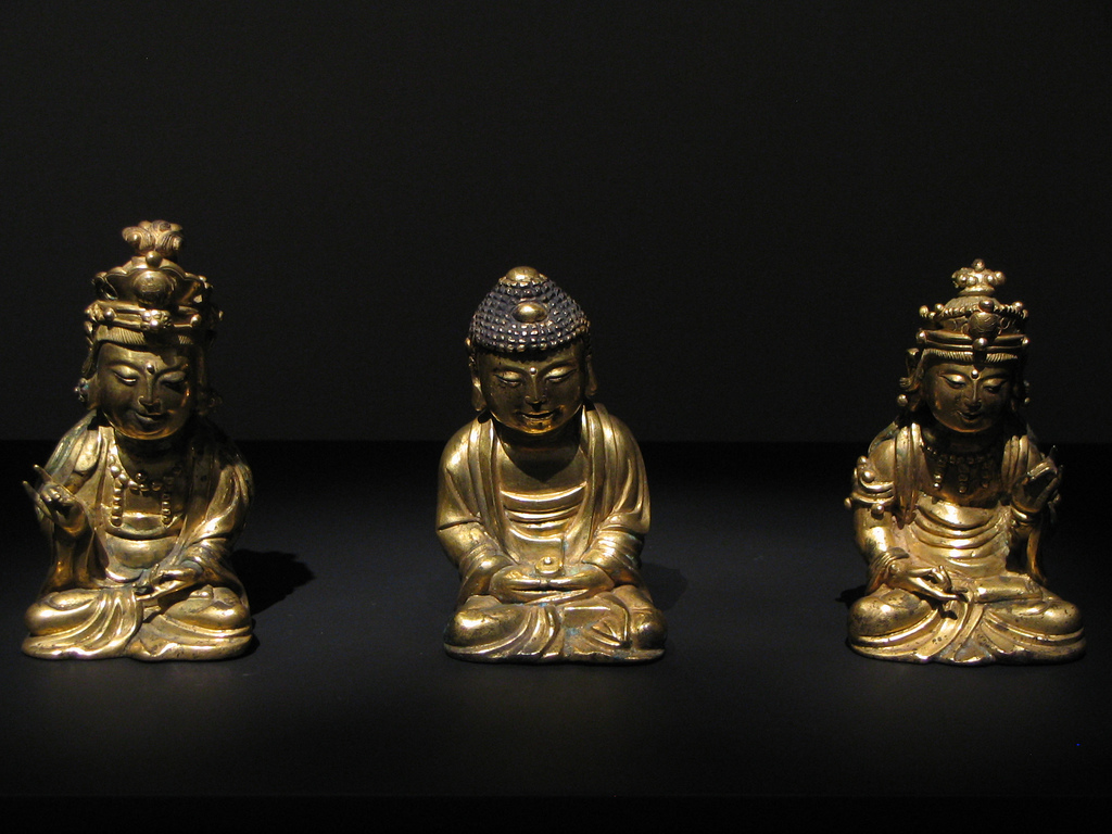 Buddha sculptures from the Joseon Dynasty.